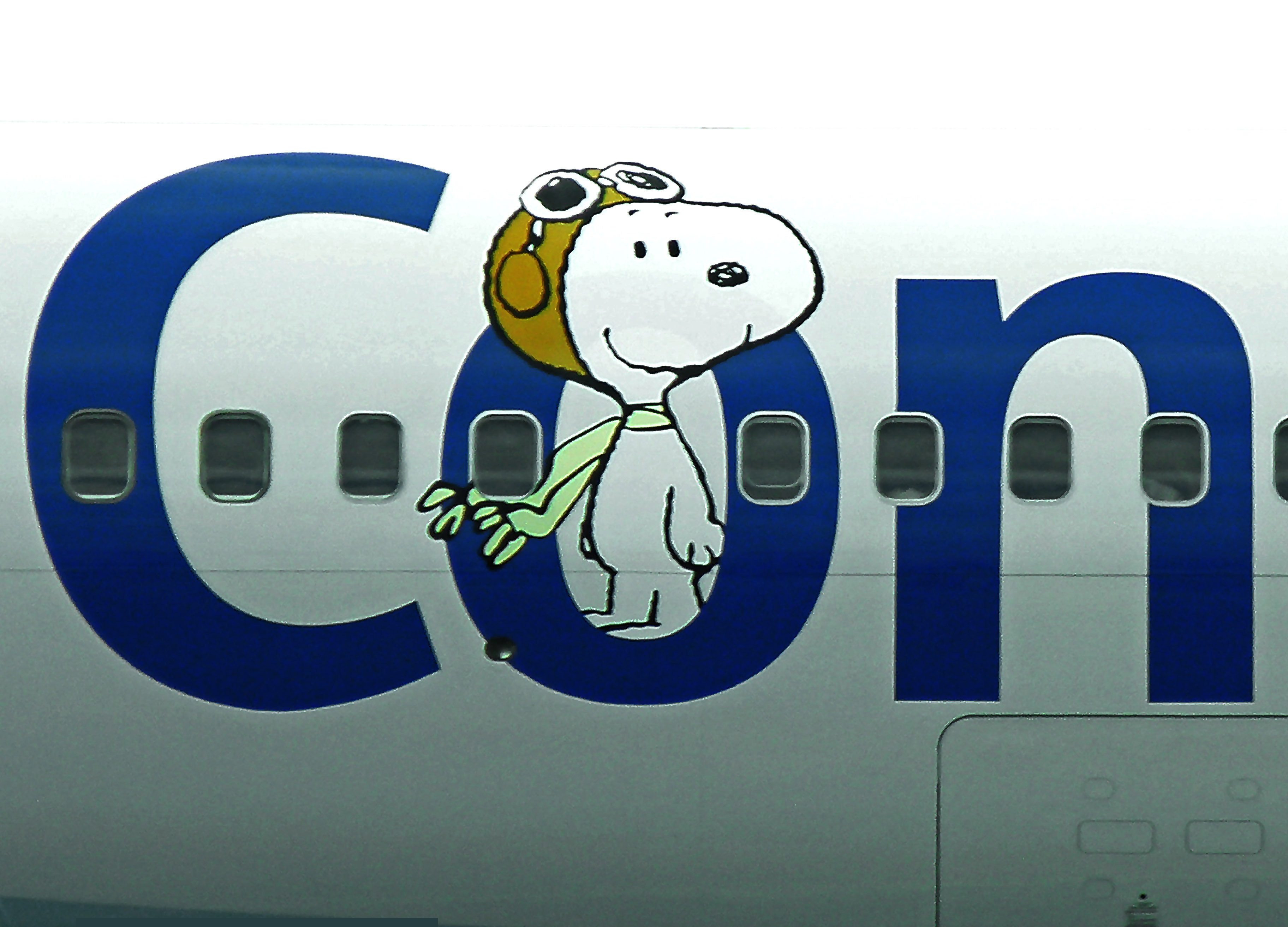 B767 CONDOR (Thomas Cook) at MROC. Cool livery.